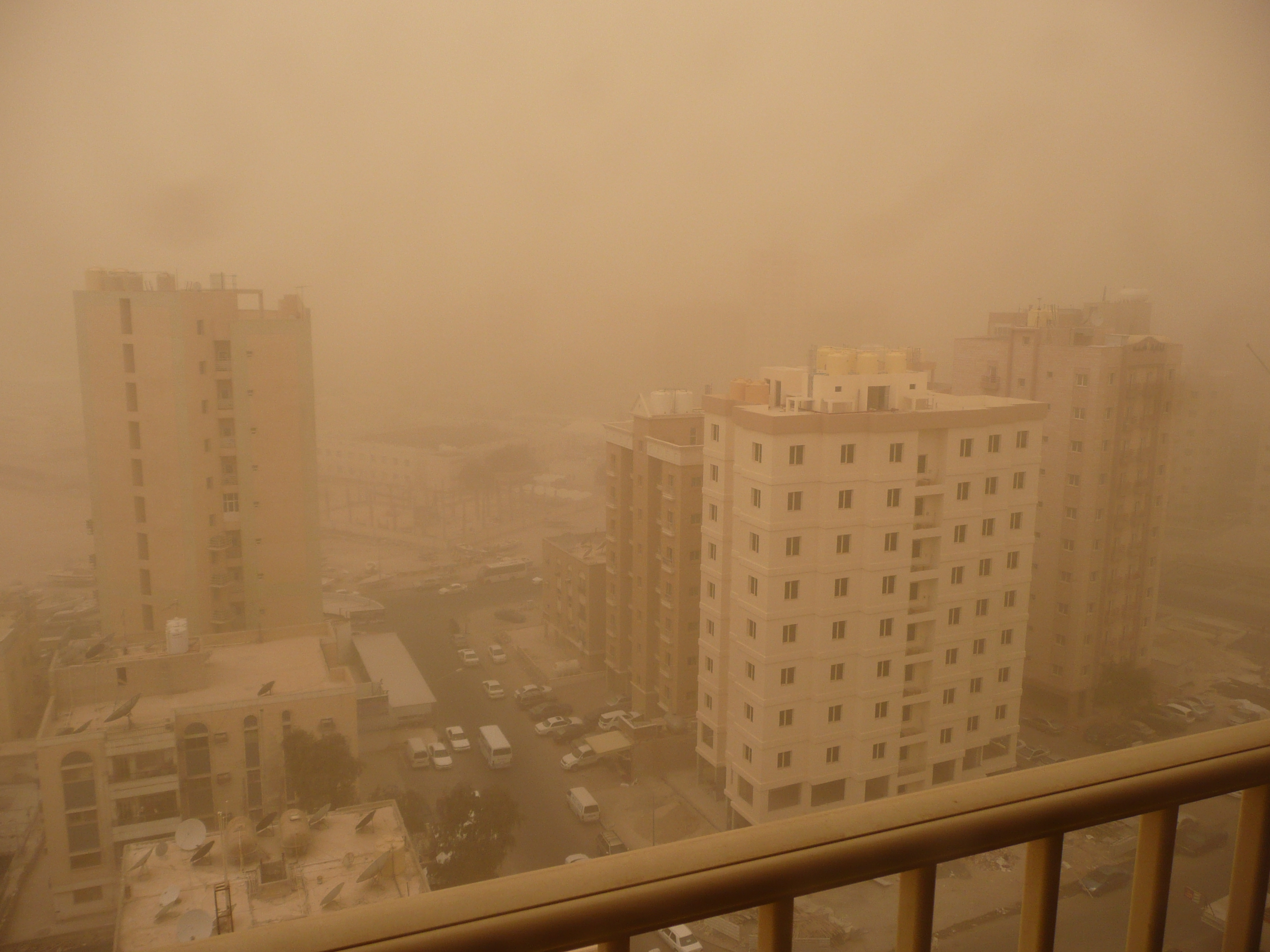 Severe sand storm in Salmiya, Hawalli, Kuwait.